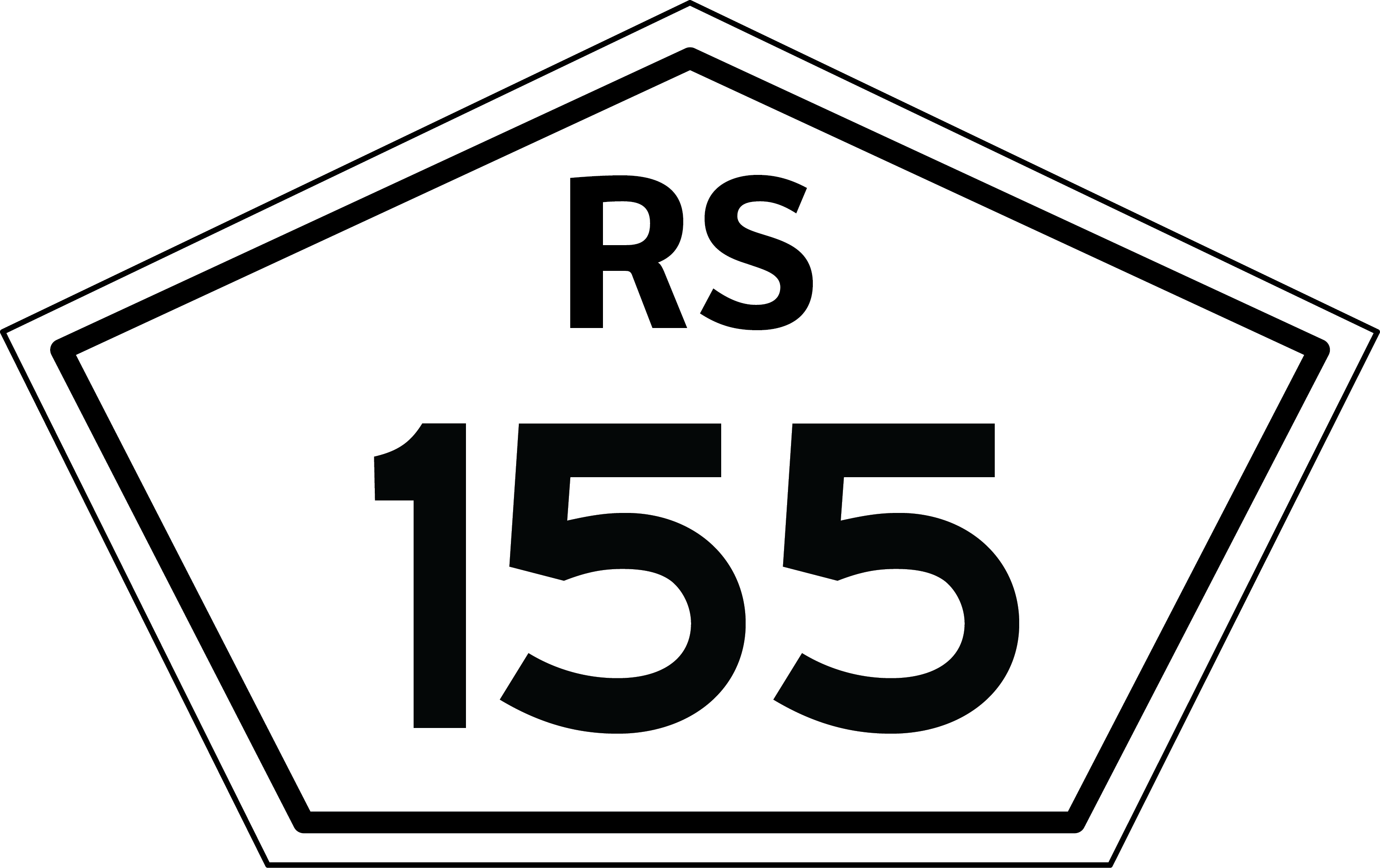 RS-155 State road in Rio Grande do Sul, Brazil. Rodovia estadual no Rio Grande do Sul, Brasil.